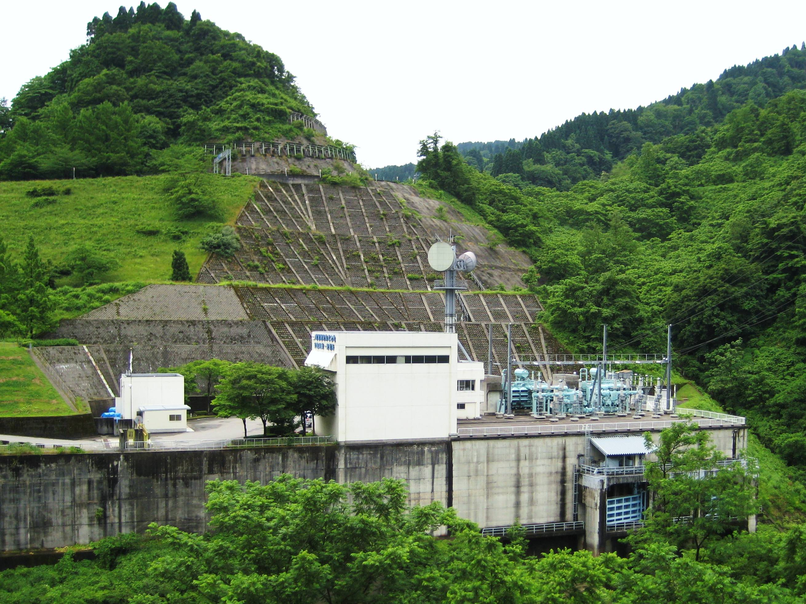 Tedorigawa I power station.